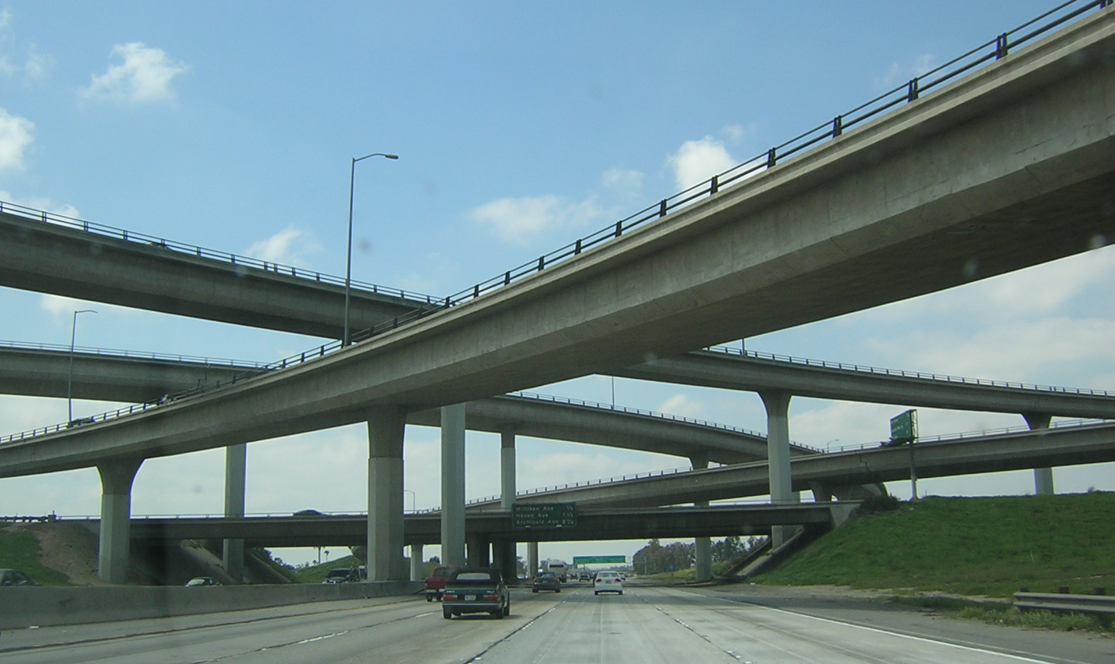 Intersection of I-10 and I-15 in California, USA.